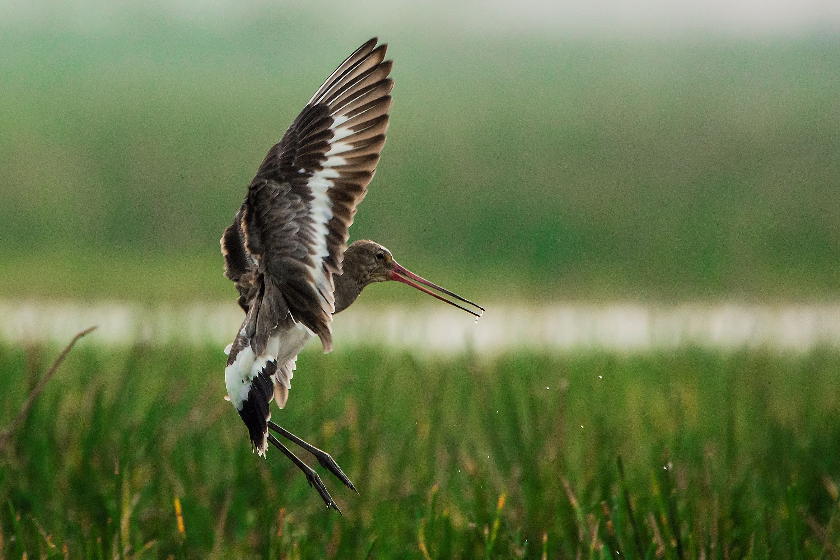 Black-tailed Godwit striking a pose. Mangalajodi Wetlands (Chilika - wetland of international importance under the Ramsar Convention), Odisha, India.